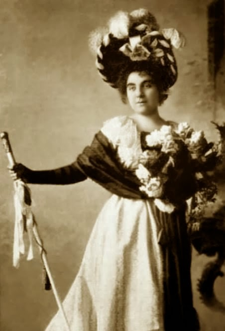 The Italian opera singer Amelia Pinto (1879-1948) performing Tosca in 1899